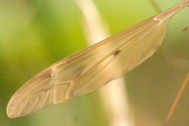 Tipula fulvipennis from Commanster, Belgian High Ardennes .